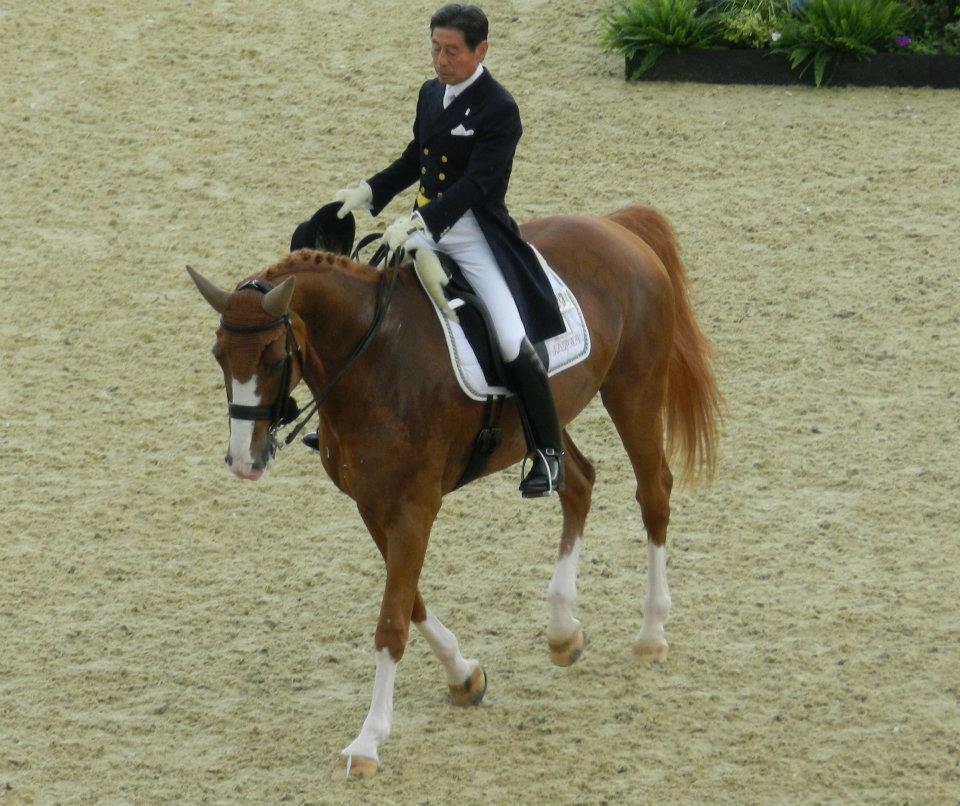 Hiroshi Hoketsu, the oldest competitor at the the London 2012 Summer Olympics, in dressage